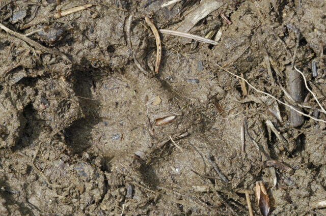 Vulpes vulpes track on mud, from Commanster, Belgian High Ardennes (50°15'20``N,5°59'58``E)